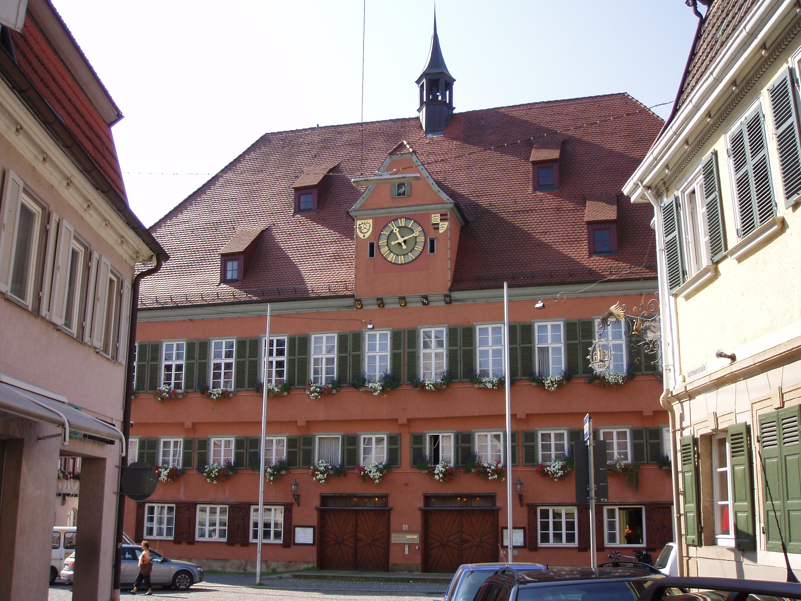 Town hall of [:en:Nürtingen